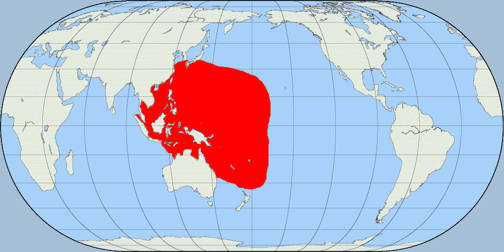 Map showing distribution of the Yellow clown goby in the west Pacific Ocean